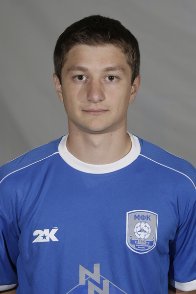 Portrait